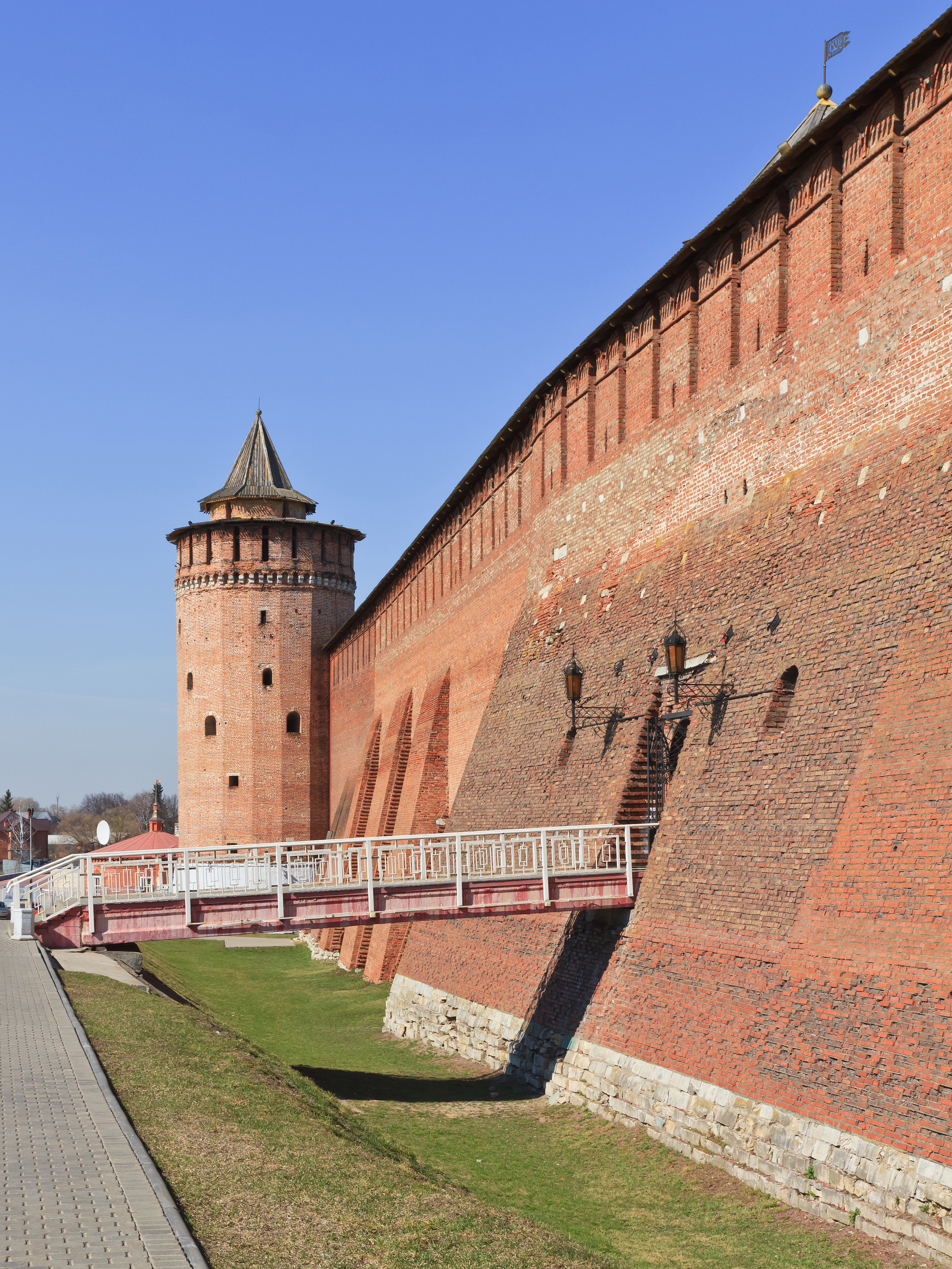 Mikhailovskiye Gate and Marinkina Tower of the Kolomna Kremlin. Kolomna, Moscow Oblast, Russia.